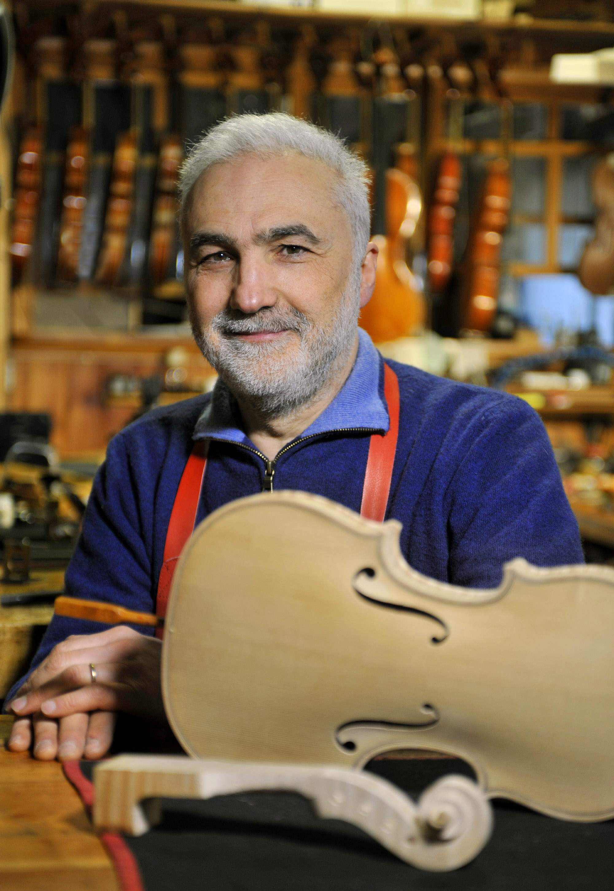 This is the portrait of the luthier Roberto Regazzi in his workshop in Bologna today (March, 6th, 2017)